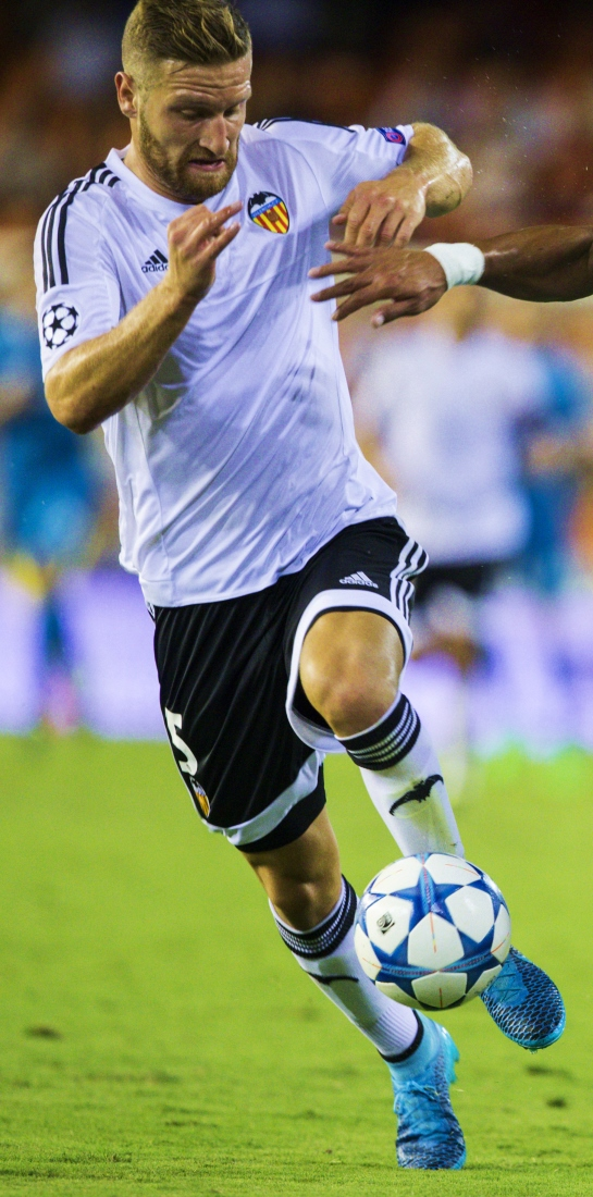 Shkodran Mustafi